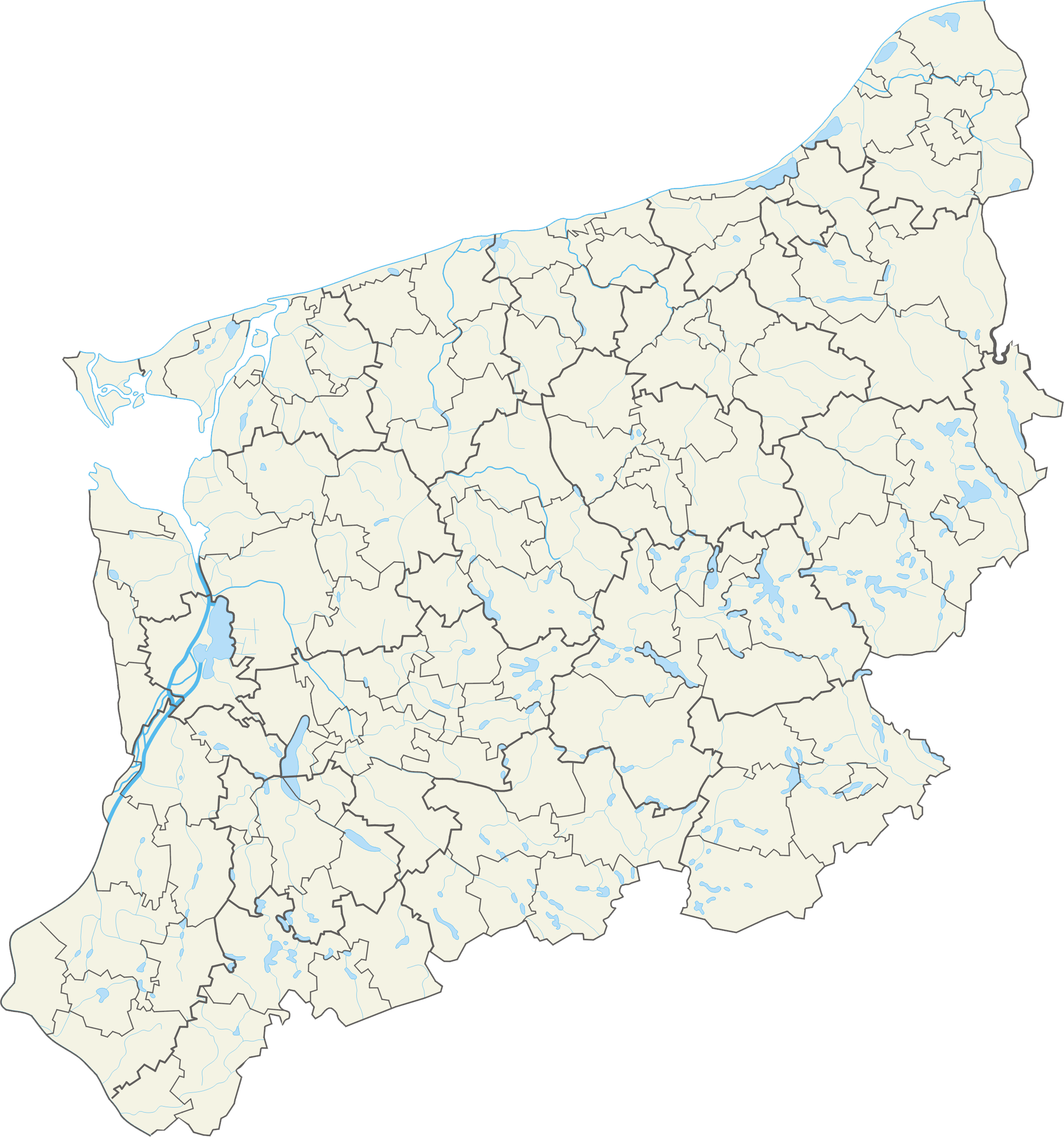 Administrative map of the West pomeranian Voivodeship with powiats boundaries.